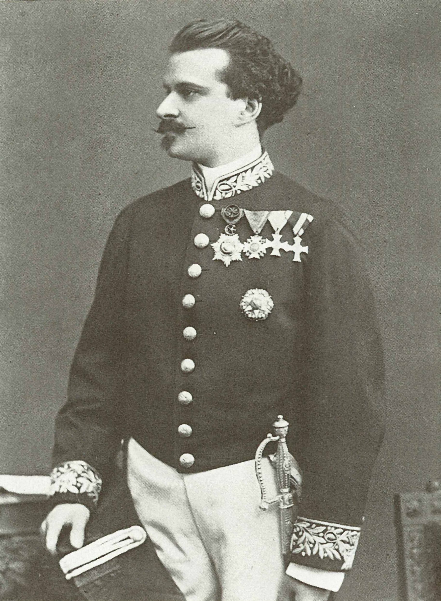 Eduard StraussEduard Strauß (1835–1916), Austrian composer